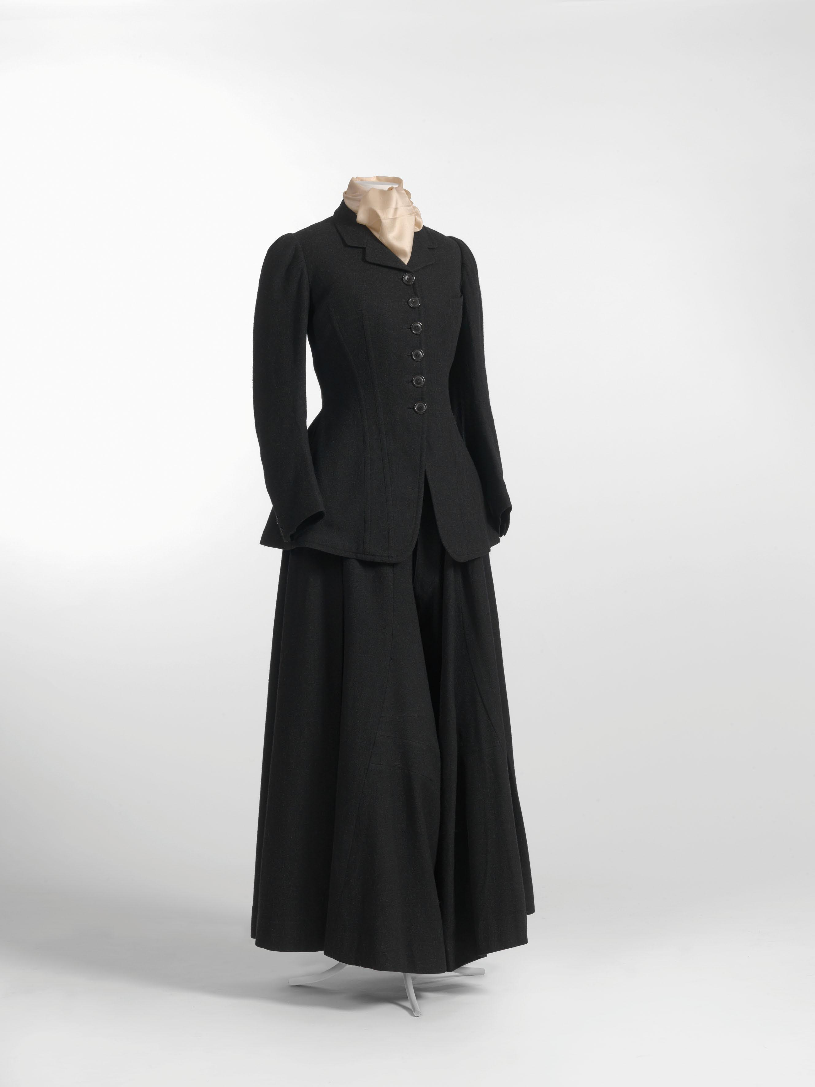 Anonymous, Riding habit, including jacket, riding skirt and divided skirt, 1900-1910. Jacoba de Jonge Collection in MoMu - Fashion Museum Province of Antwerp, Photo by Hugo Maertens, Bruges. MoMu Collection T12/23ABC/B55. Go to [1] and type in the MoMu collection number to find more information about the object